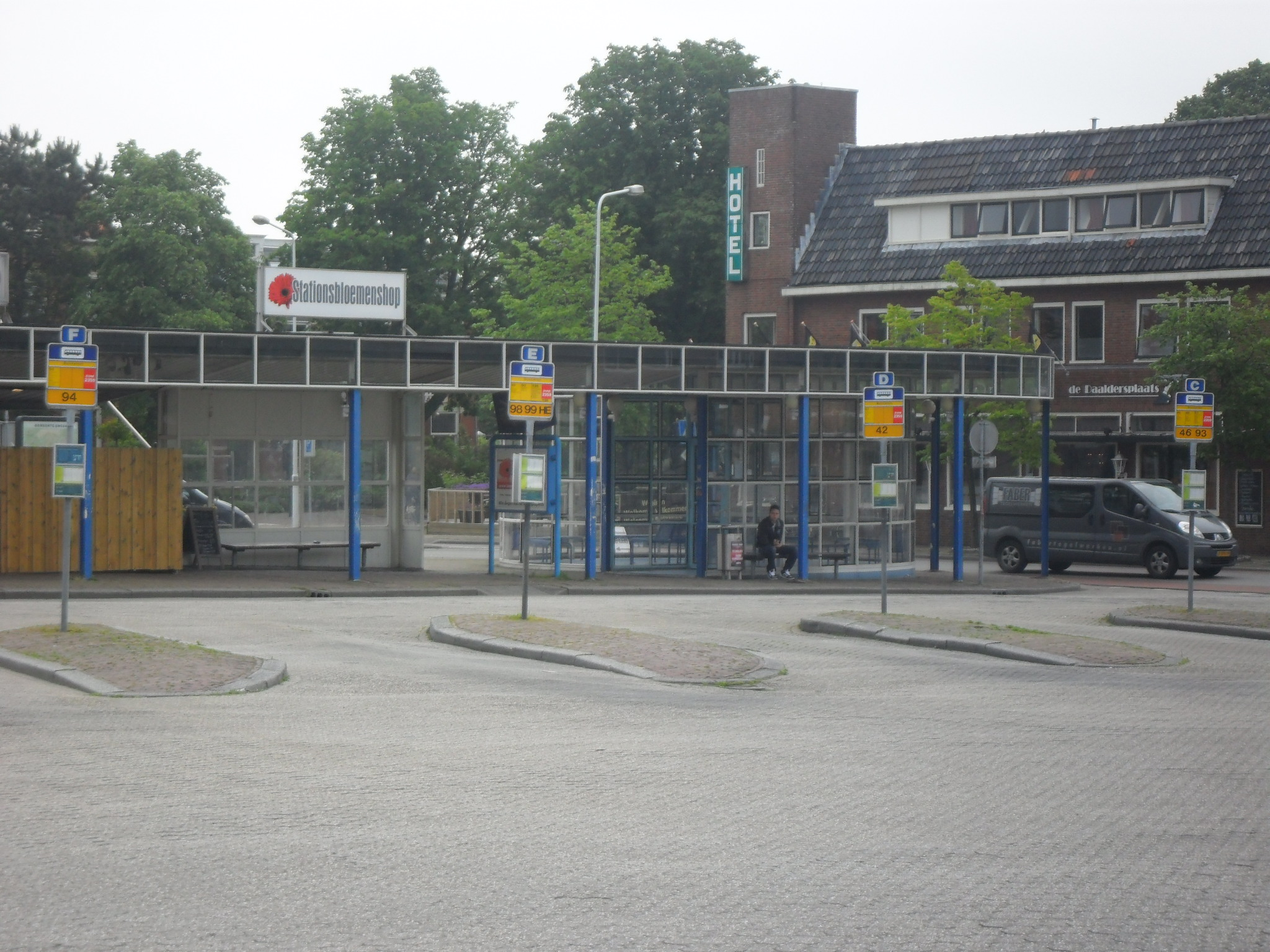 Busstation Sneek 3